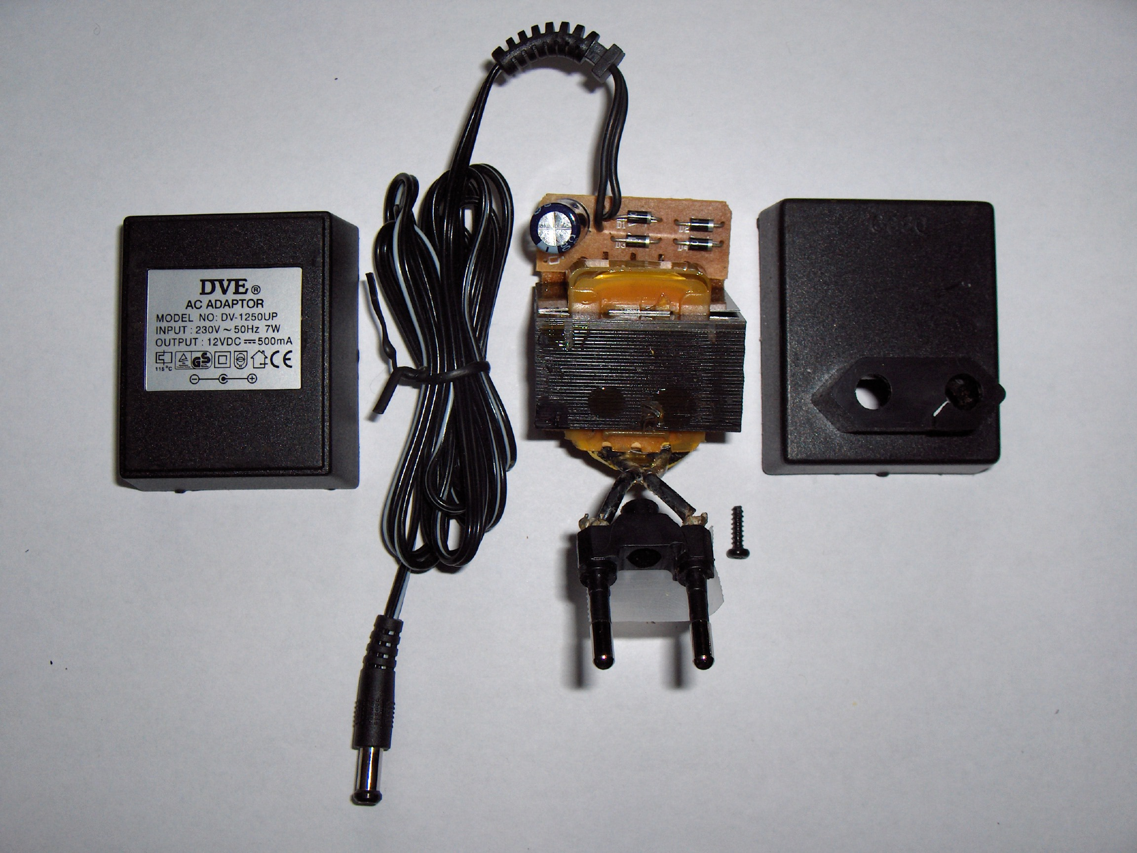 A wall wart opened. The internal circuit is a simple unregulated DC supply.